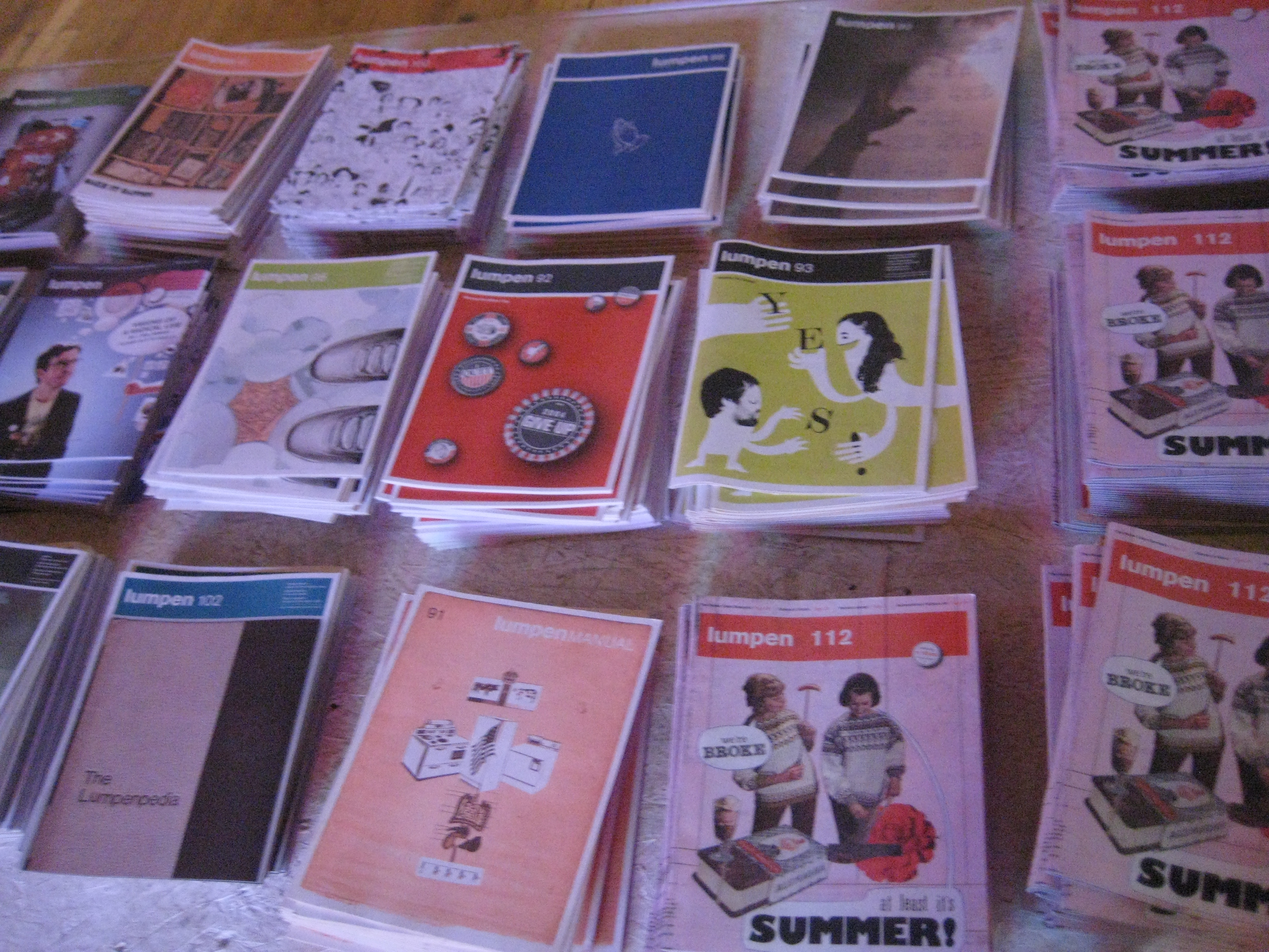 of lumpen